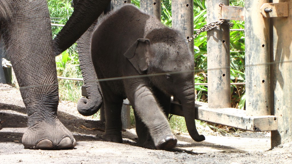 Luk Chai, the baby Asian Elephant at Taronga Zoo, Sydney, Australia.